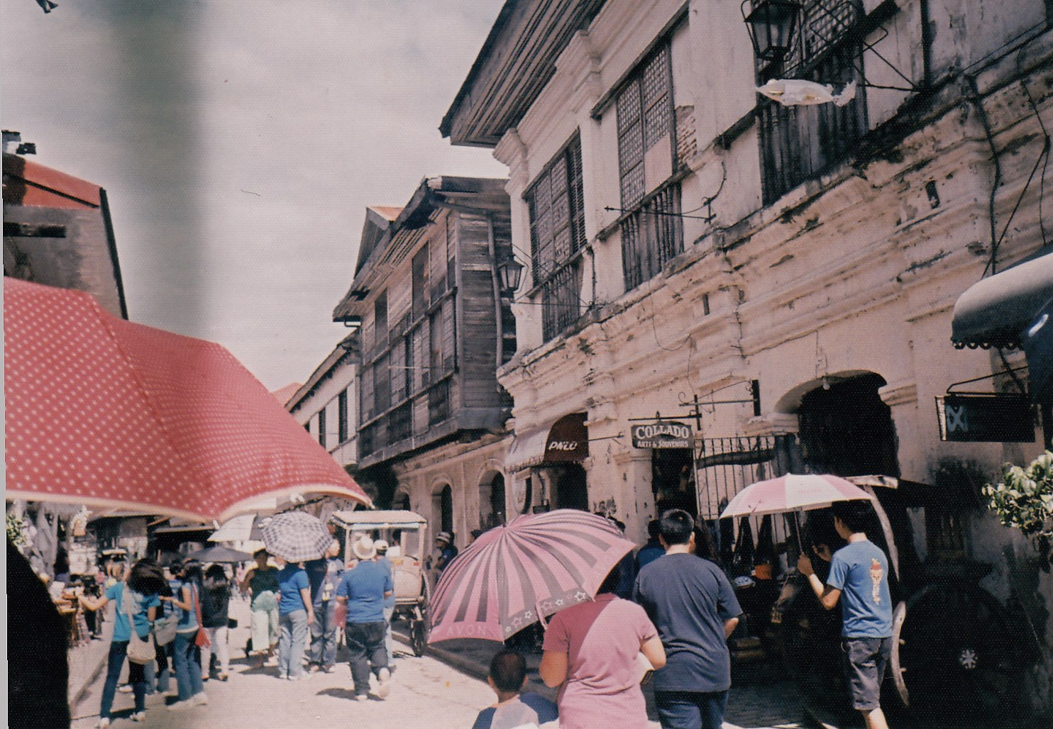 Vigan City, Ilocos Sur